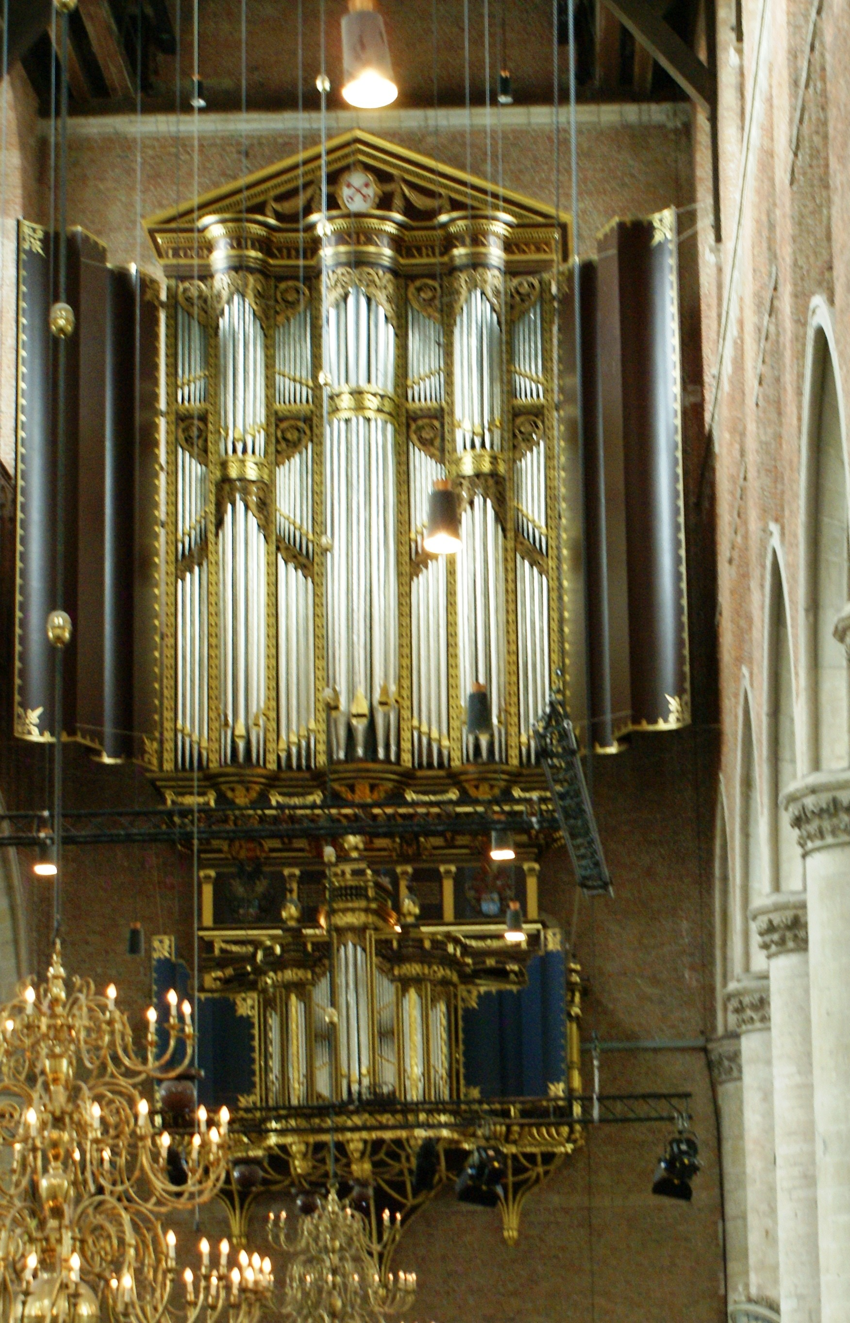 Van Hagerbeer Organ (1643) St Pieters Church, Leiden